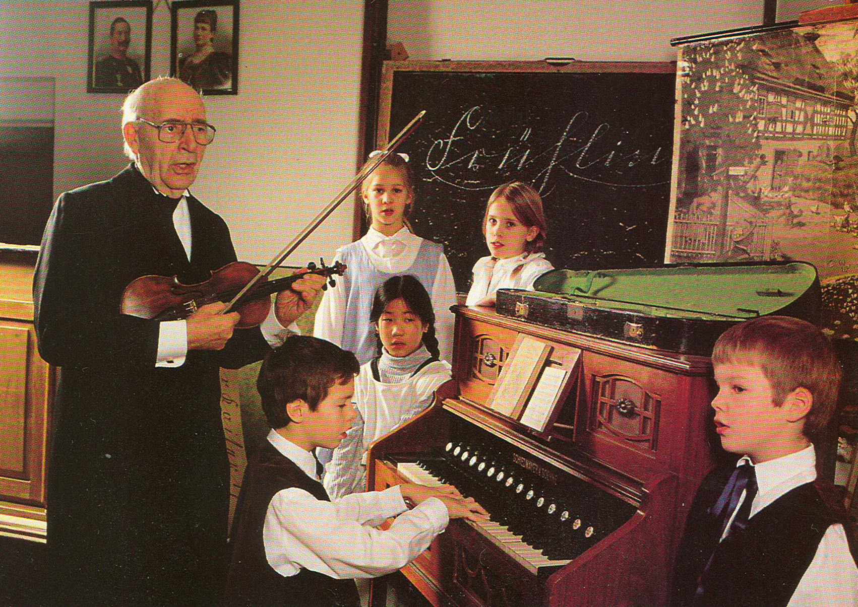 Mr. Carl Cüppers in a teaching room (School Museum) in front of young people.